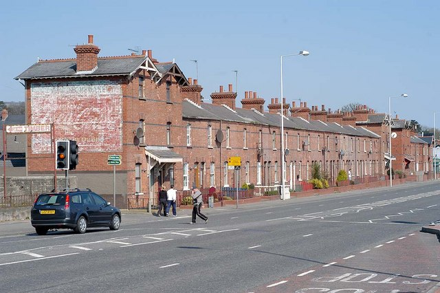 A Row of Houses, Whiteabbey A painted gable or what remains of it, after many years of inclement weather. The words Coca Cola and Home Bakery can be made out, but little else.